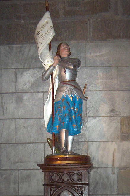 Bayonne, France; Statue of Jeanne d'Arc in the Guardian Angels' Chapel of the cathedral